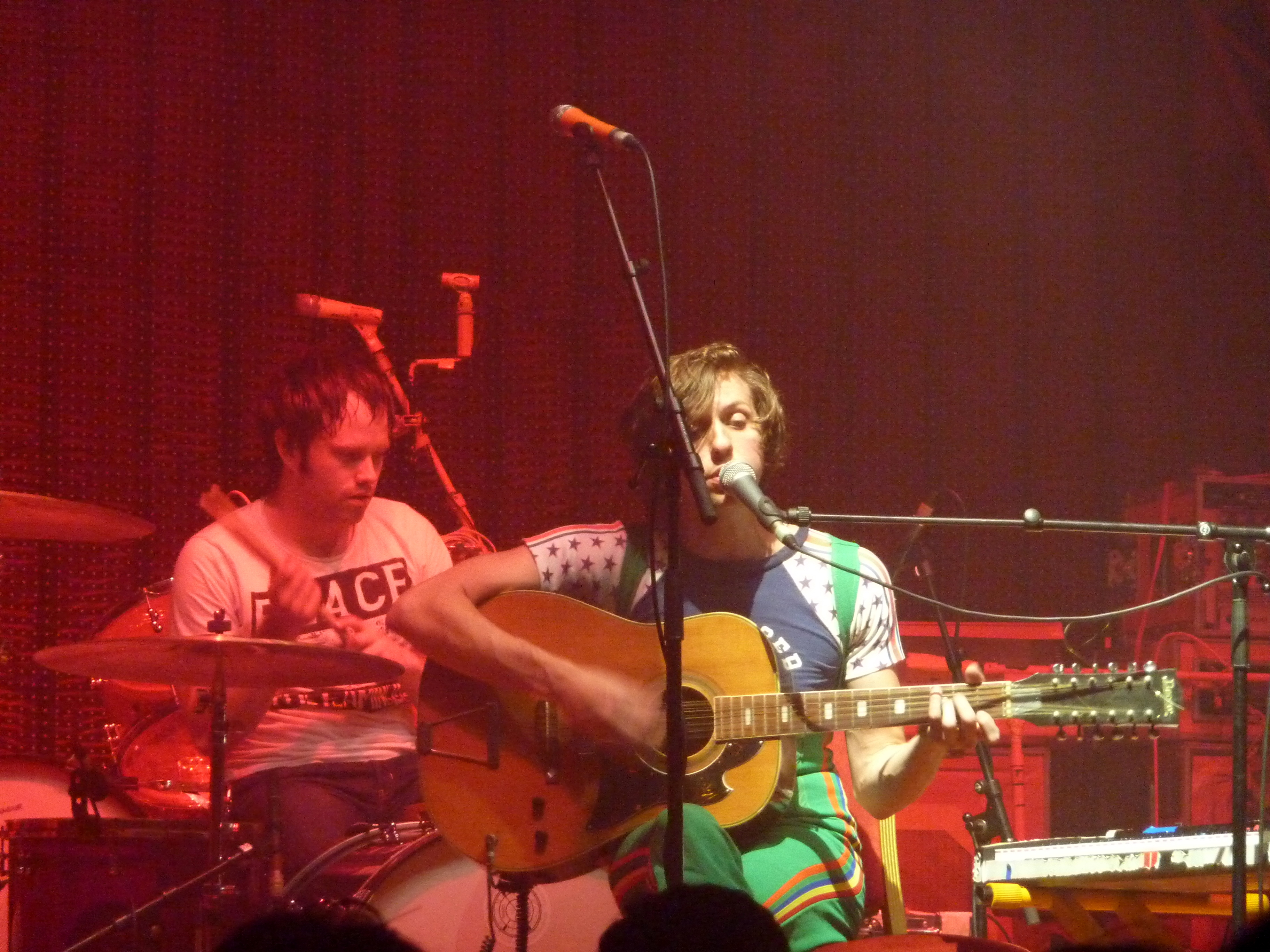 They were alright, nothing special mind.